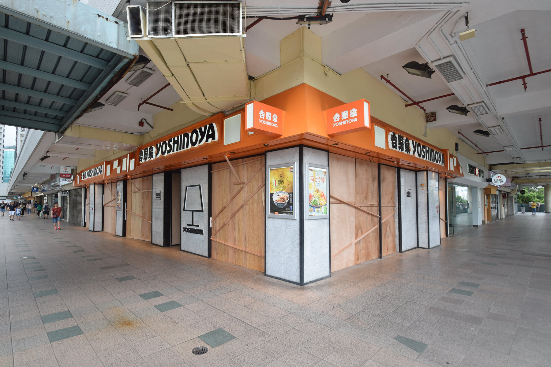 The shop window of Yoshinoya Lucky Plaza store had been enclosed by timber boards before rally commenced.